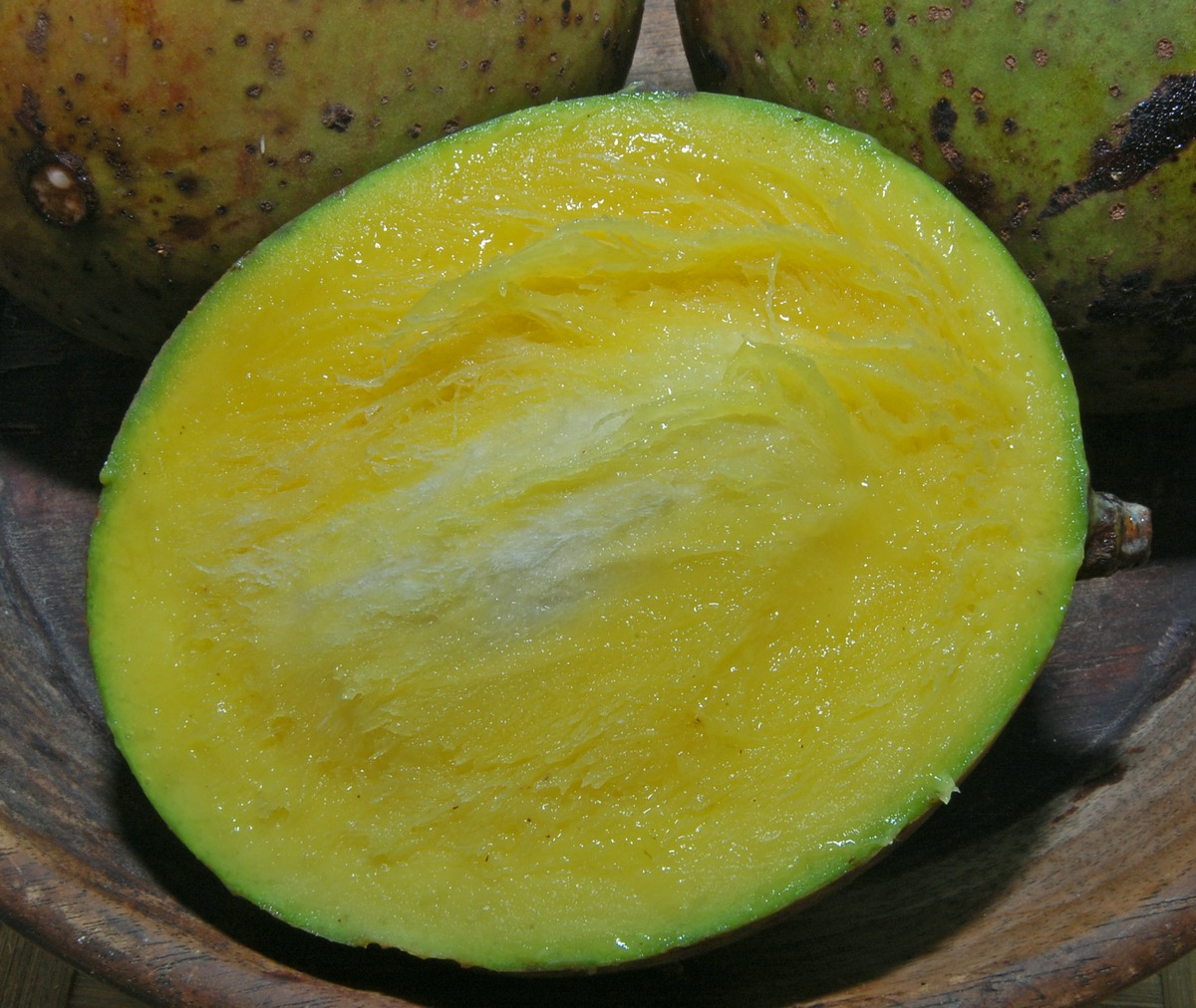 Mangifera foetida from Bogor, West Java, Indonesia